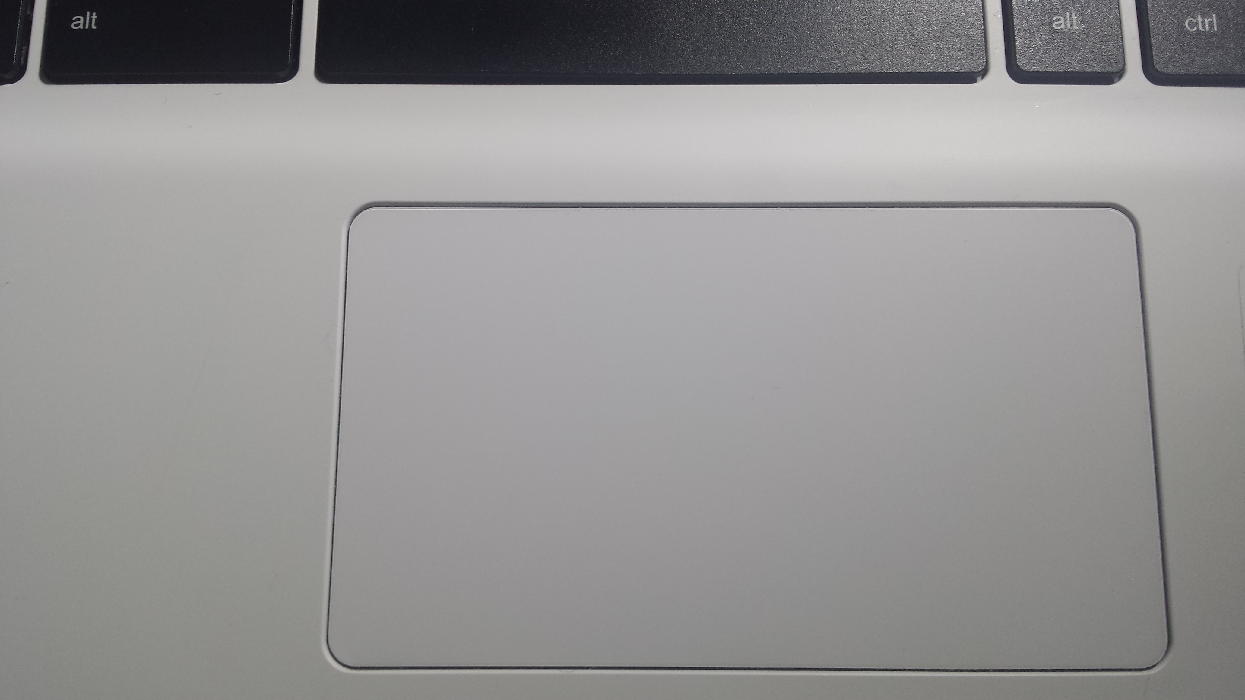 Close-up of a touchpad on Acer Chromebook CB5-311 series.